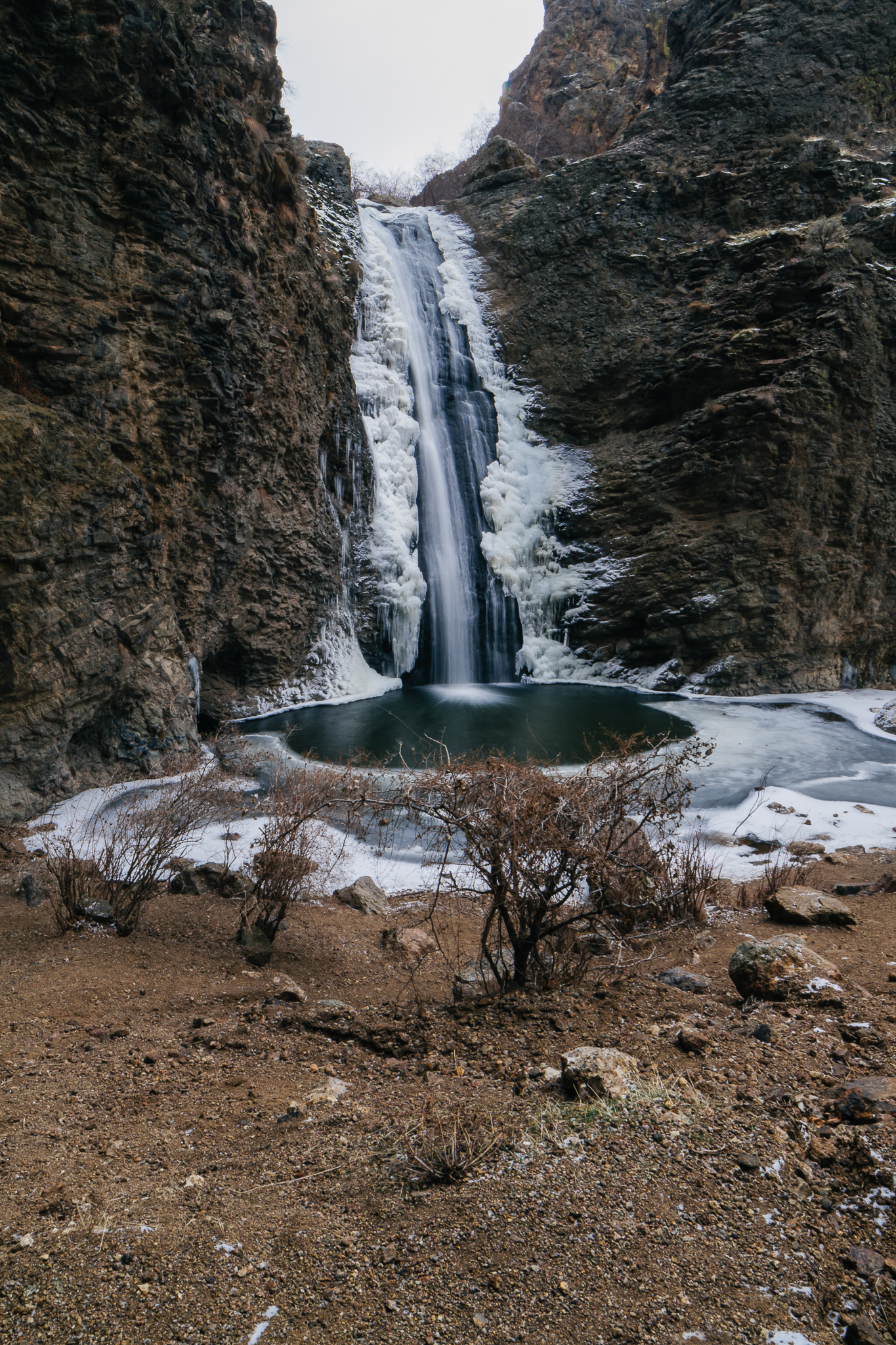 Photo of Jump Creek Falls taken 12-30-2015